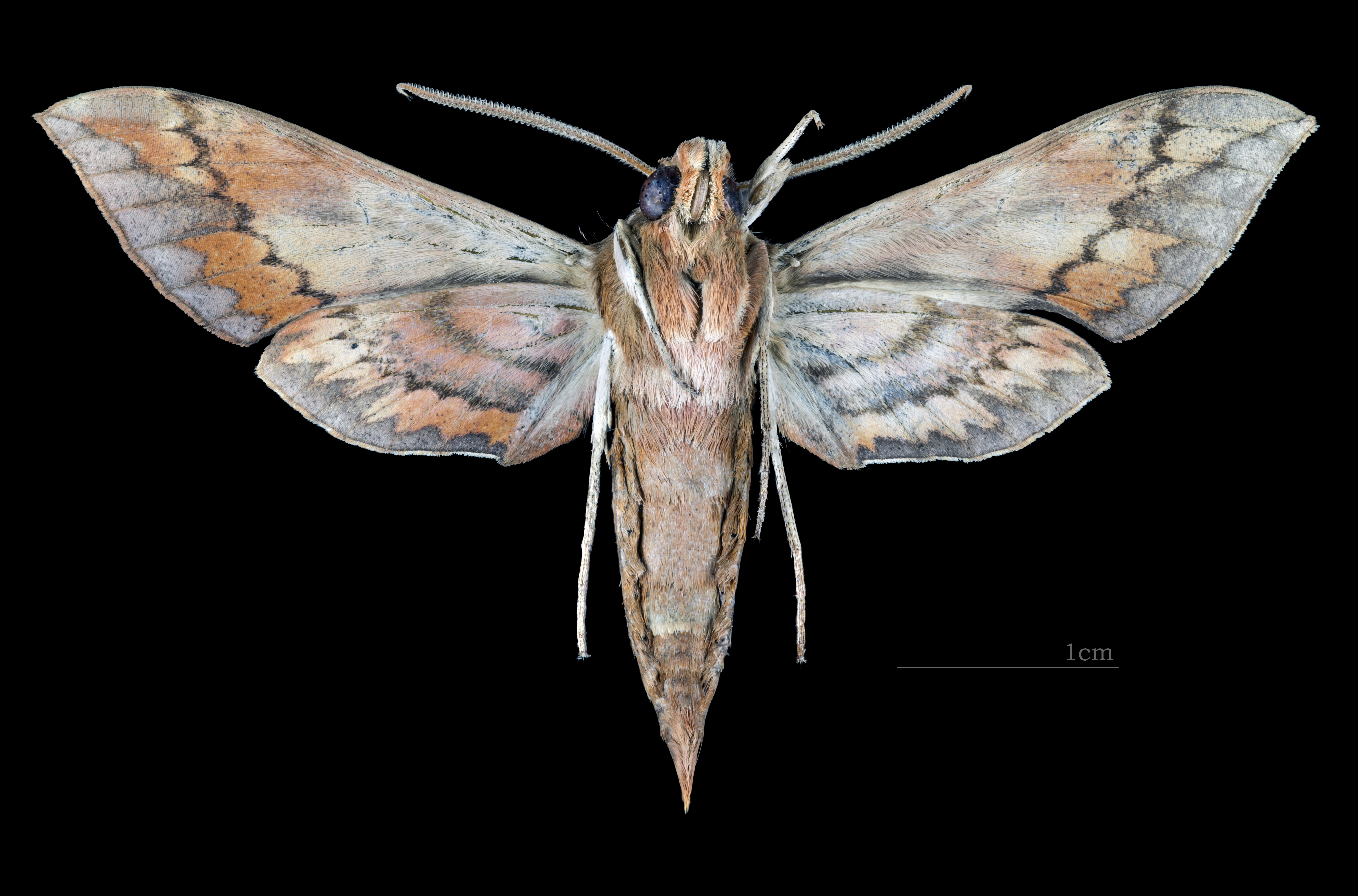 Xylophanes norfolki - △ Ventral side Collection of the Mathematician Laurent Schwartz